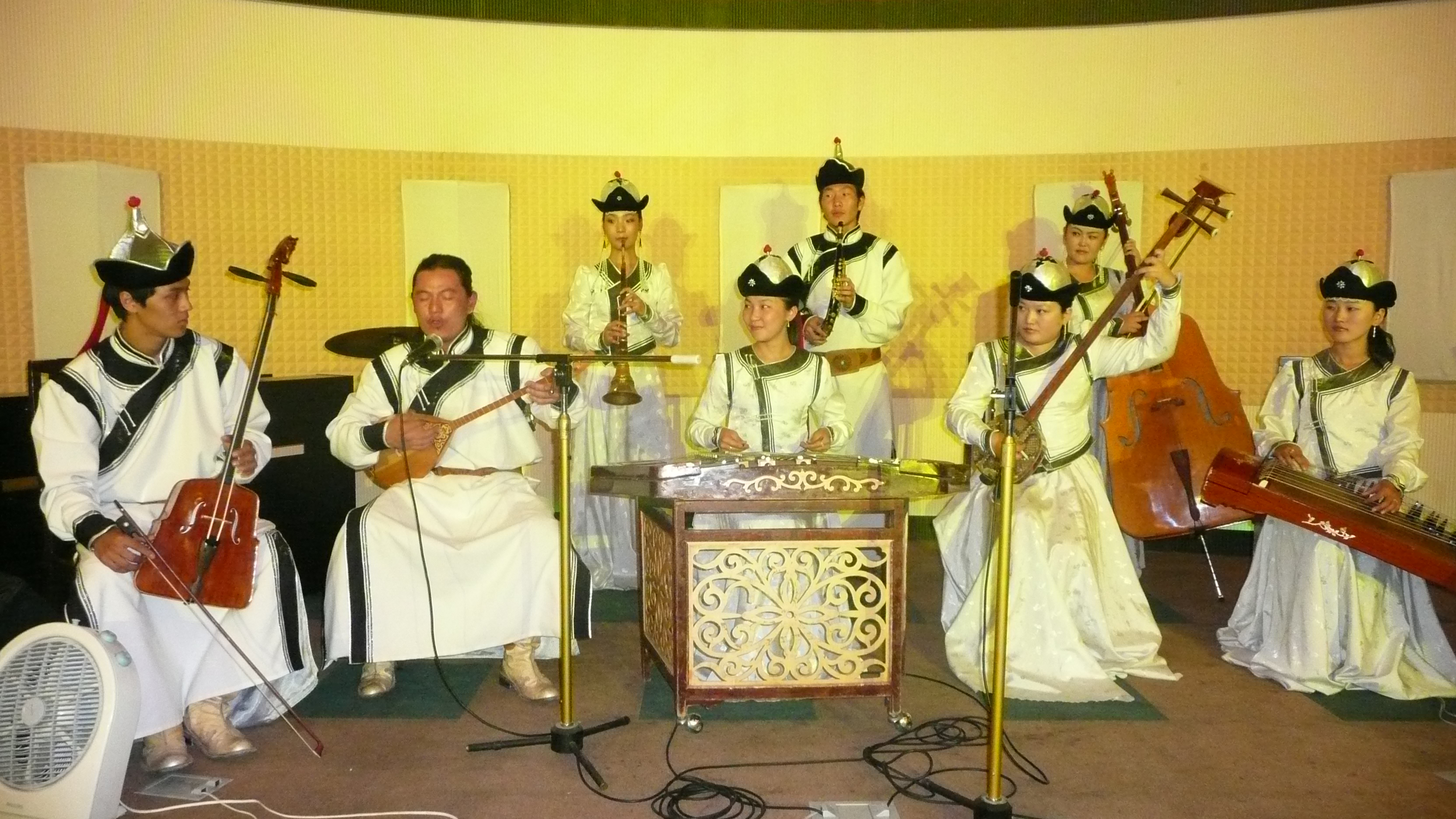 Mongolian folklore in a restaurant in Ulan Bator